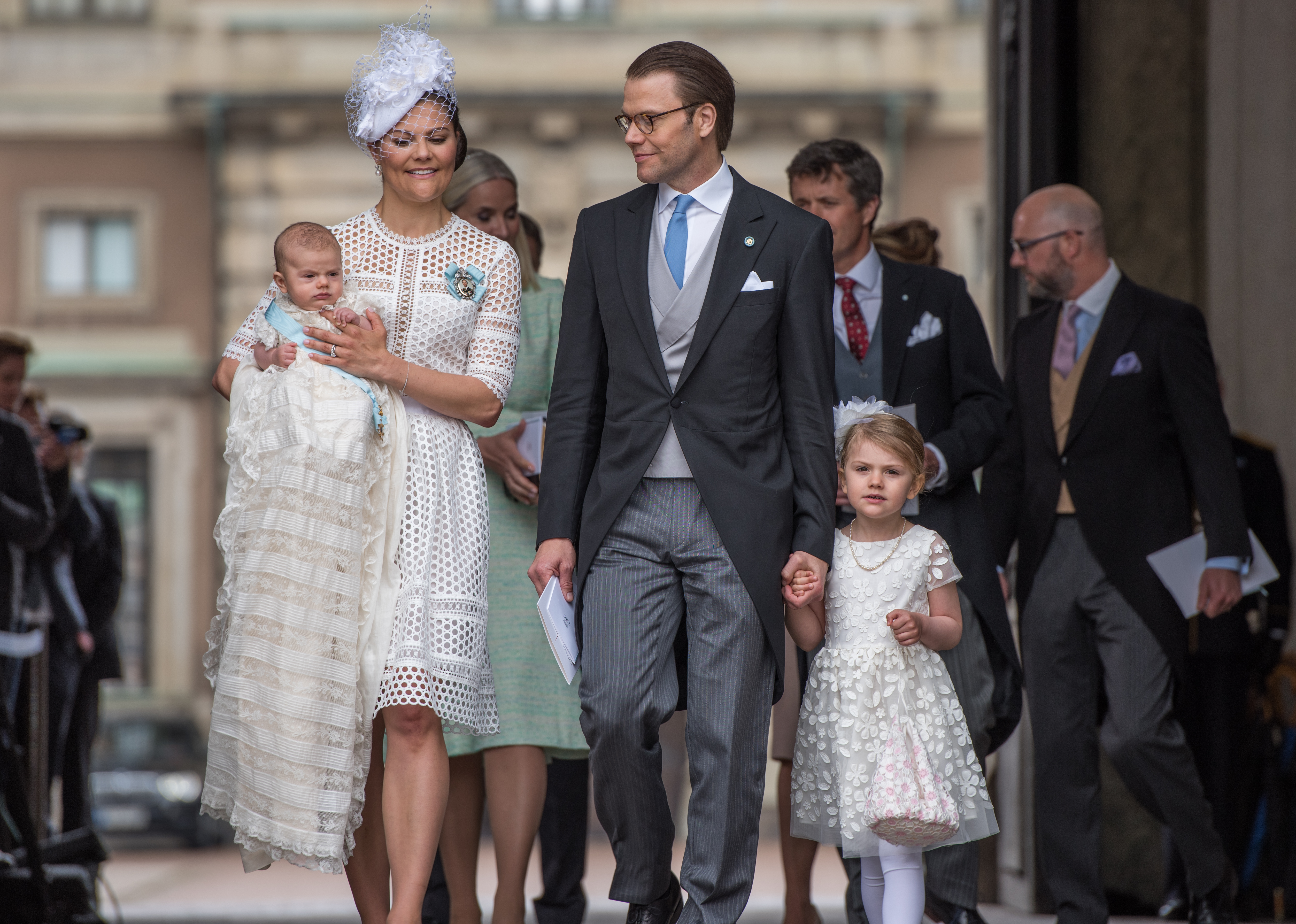 Crown Princess Victoria of Sweden with children in 2016